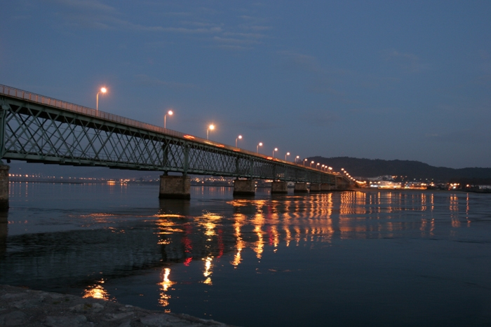 Eiffel bridge of the Minho railway over river Lima close to the city of Viana do Castelo; Portugal